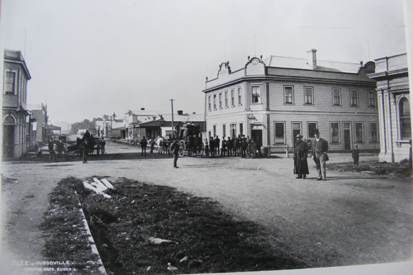 Woodville, New Zealand Main Street 1890's